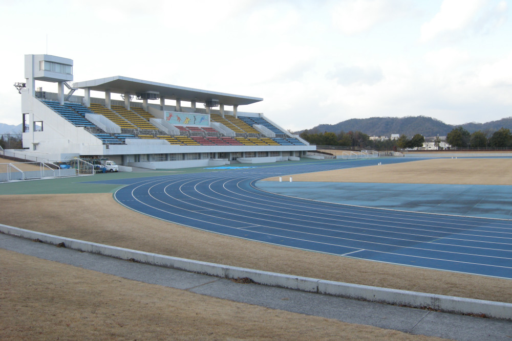 Higashihiroshima Stadium in Higashihiroshima, Hiroshima pref., Japan.